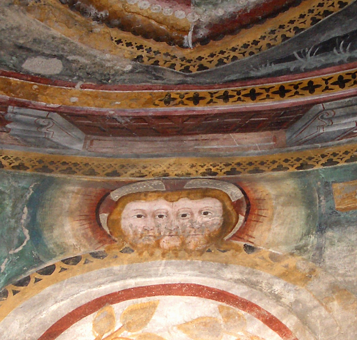 Giornico, St. Nicolao church, Nicolao da Seregno, “The Holy Trinity ” (represented as “Vultus trifrons”), frescoes decorating the apse, 1478